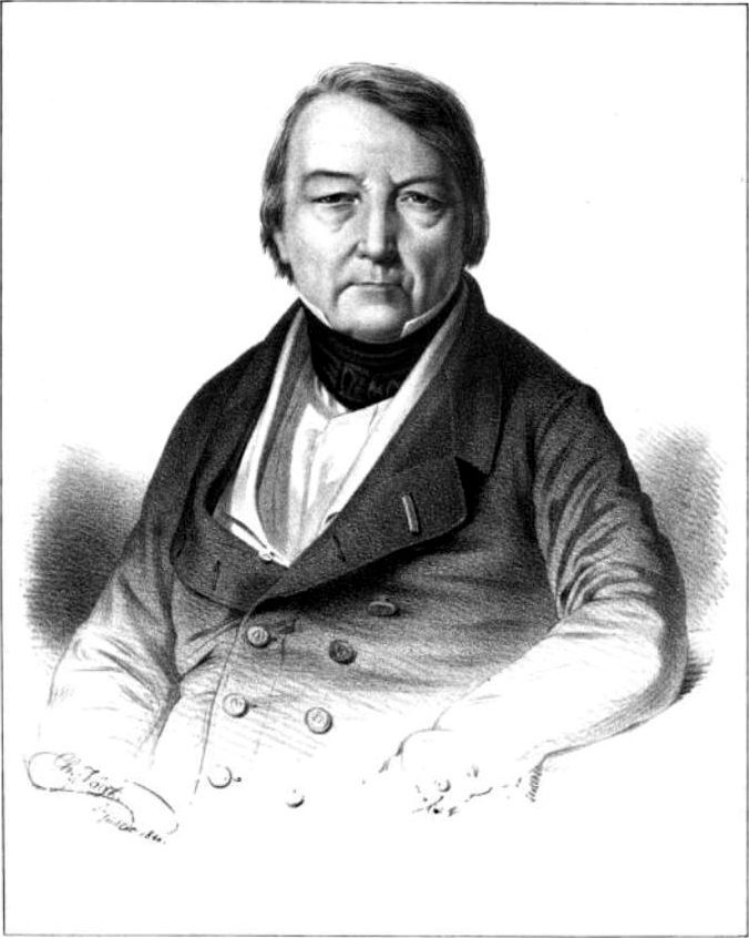 Drawing of Jacques Marquet de Montbreton de Norvins (1769-1854), French historian